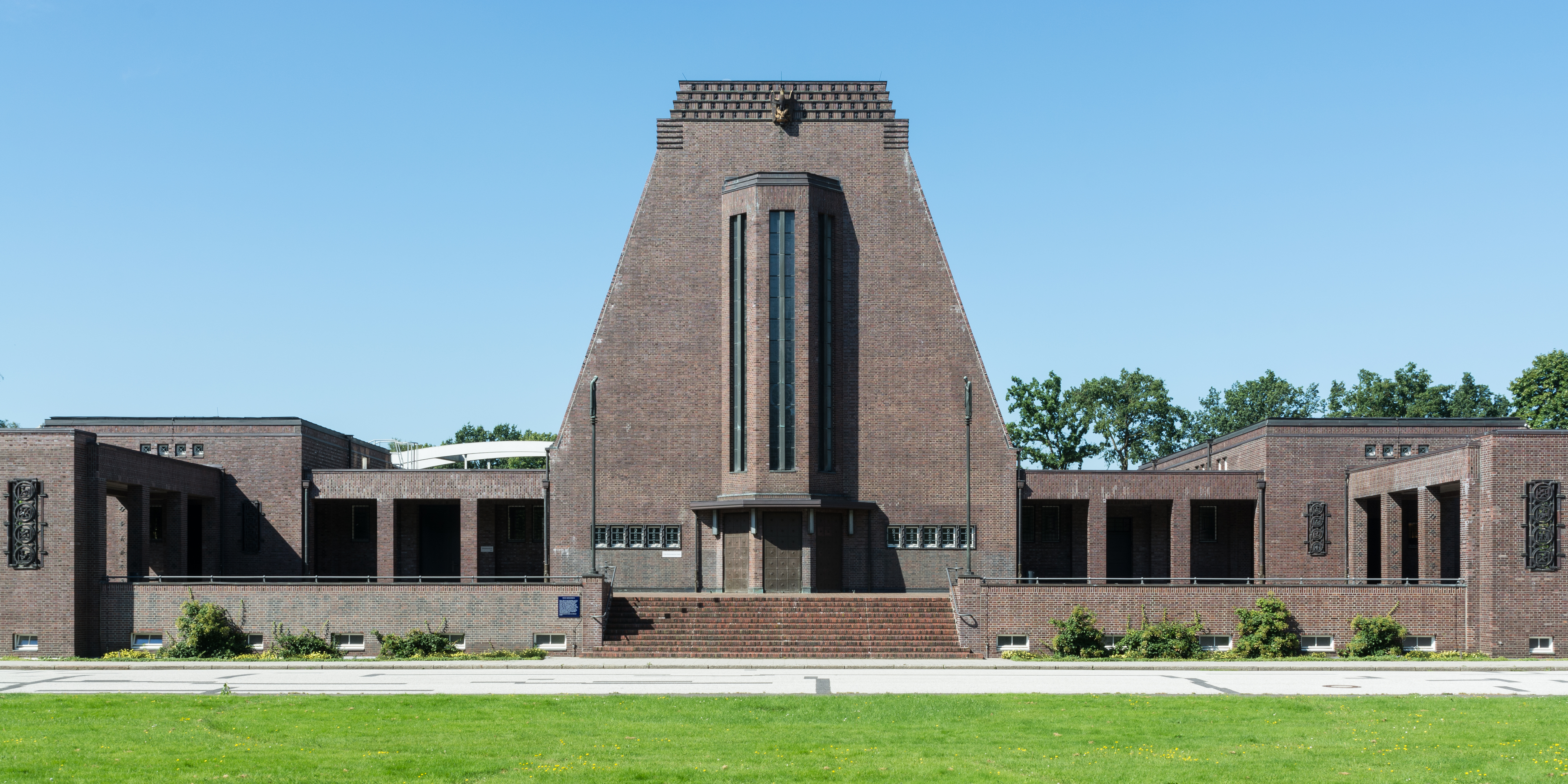 New Crematory of Ohlsdorf cemetery in Hamburg. This is a photograph of an architectural monument.